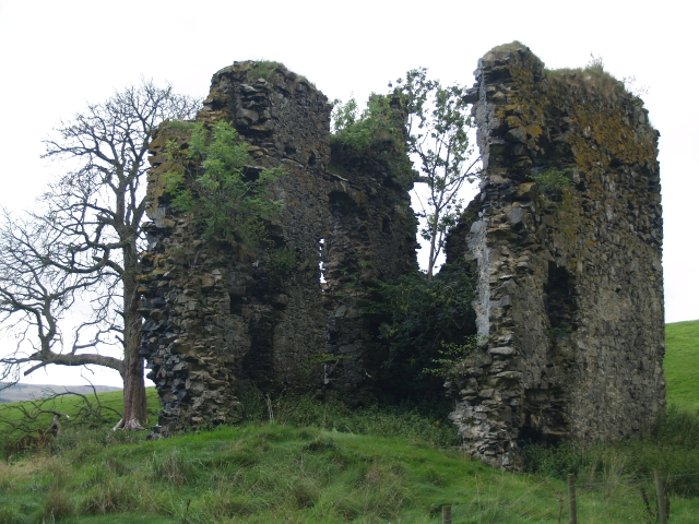 Nether Horsburgh Tower. Not to be confused with Horsburgh Castle a couple of miles upstream on the Tweed. This is one of the Peel Towers built in the 1430s for defence against Border Raiders.